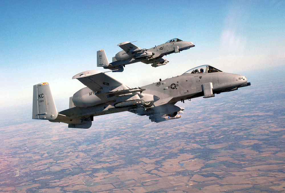 In formation for employers Two A-10 Thunderbolt IIs from the 442nd Fighter Wing, fly formation off the wing of a KC-135 Stratotanker during the wing's Employer Appreciation Day, Nov. 3. Civilian employers of wing reservists were treated to a ride in two of the aerial tankers during the event. The 442nd FW is an Air Force Reserve unit at Whiteman AFB, Mo. (U.S. Air Force photo/Staff Sgt. Tom Talbert)